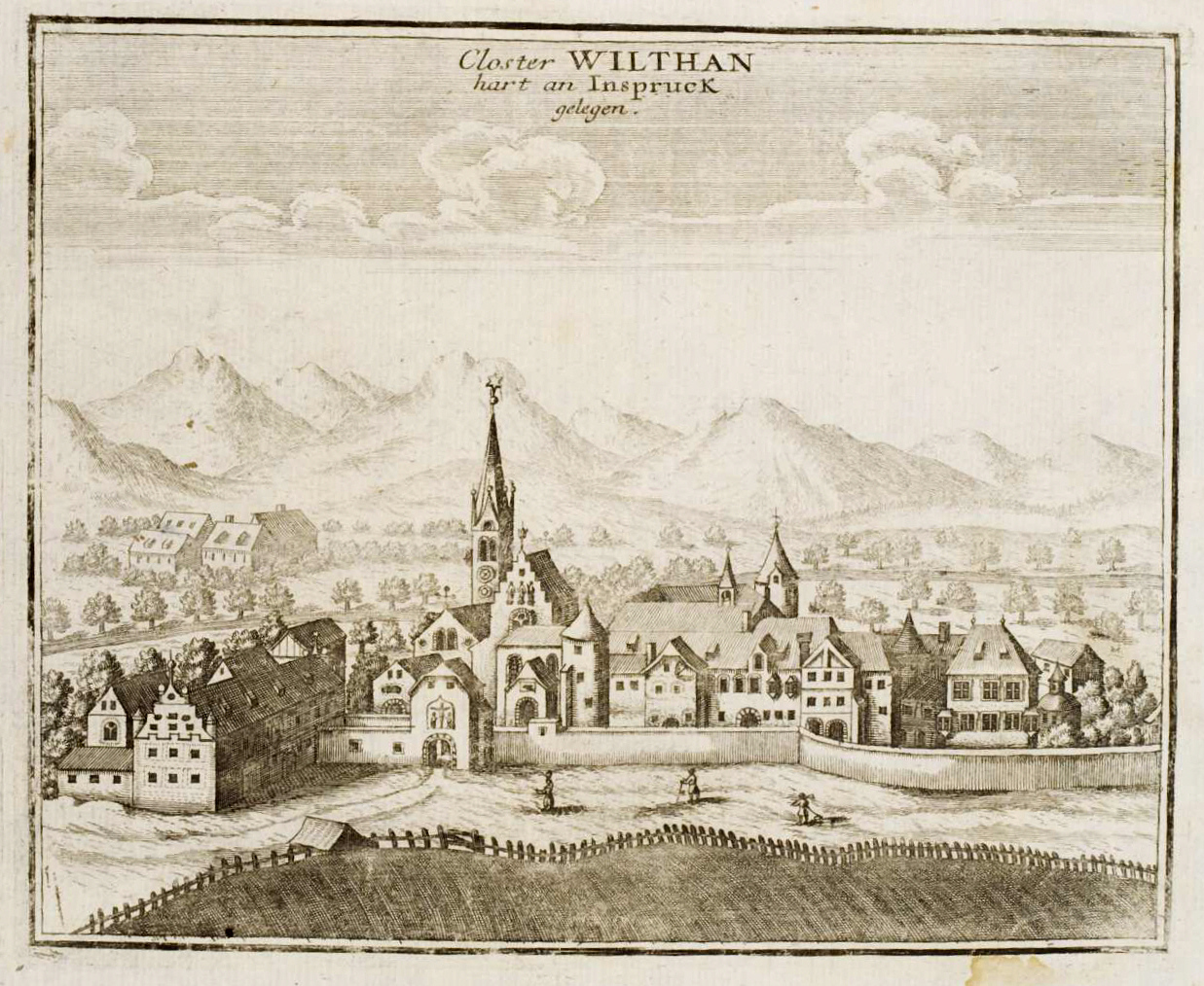 Wilten monastery nearby Innsbruck.